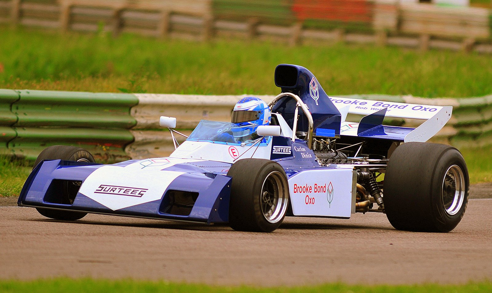 A Surtees TS9B Formula One car, in Rob Walker Racing livery, being tested at Mallory Park, UK.